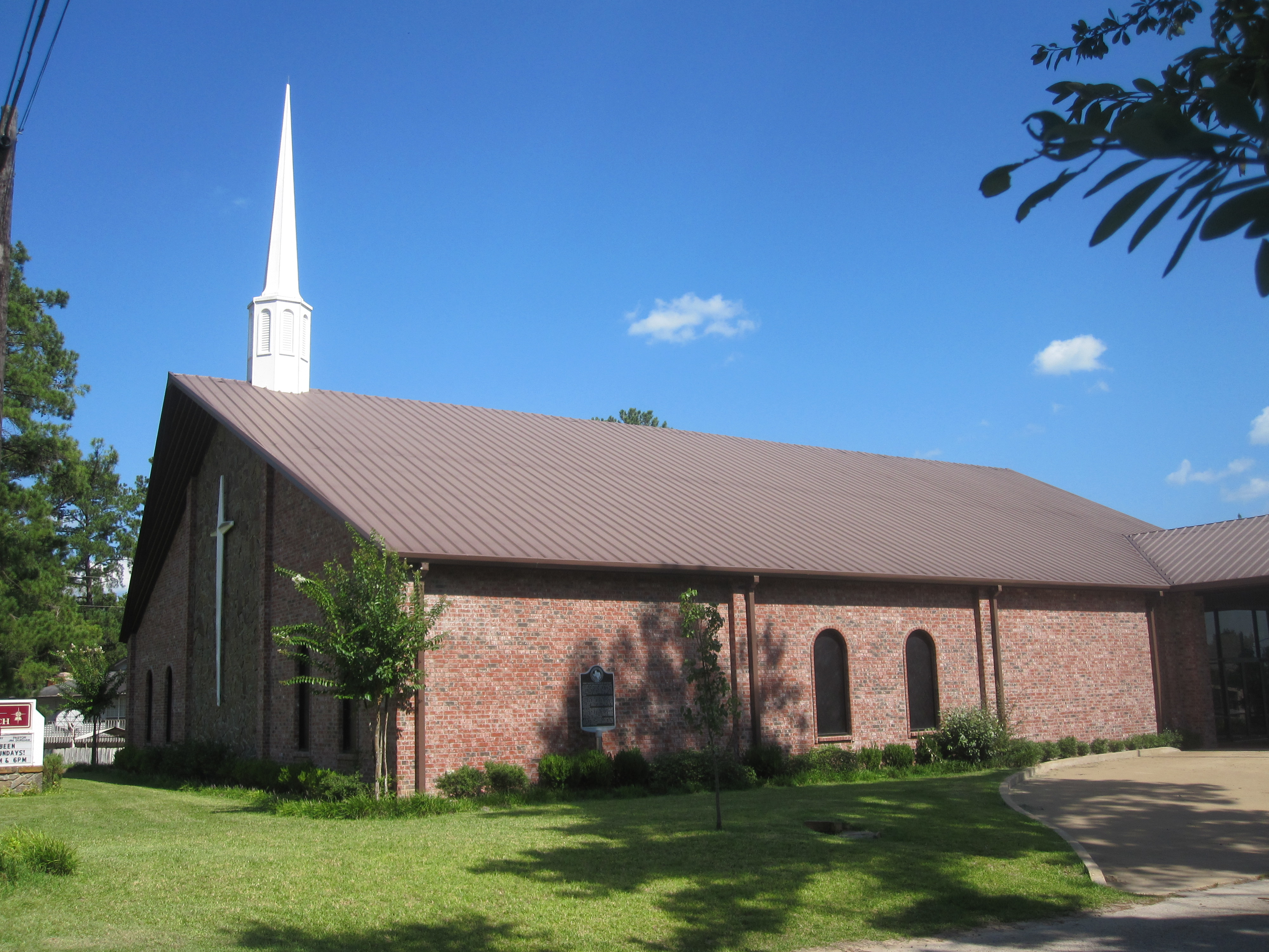 Historic First Baptist Church of Kennard, TX, known for prohibitionist activities